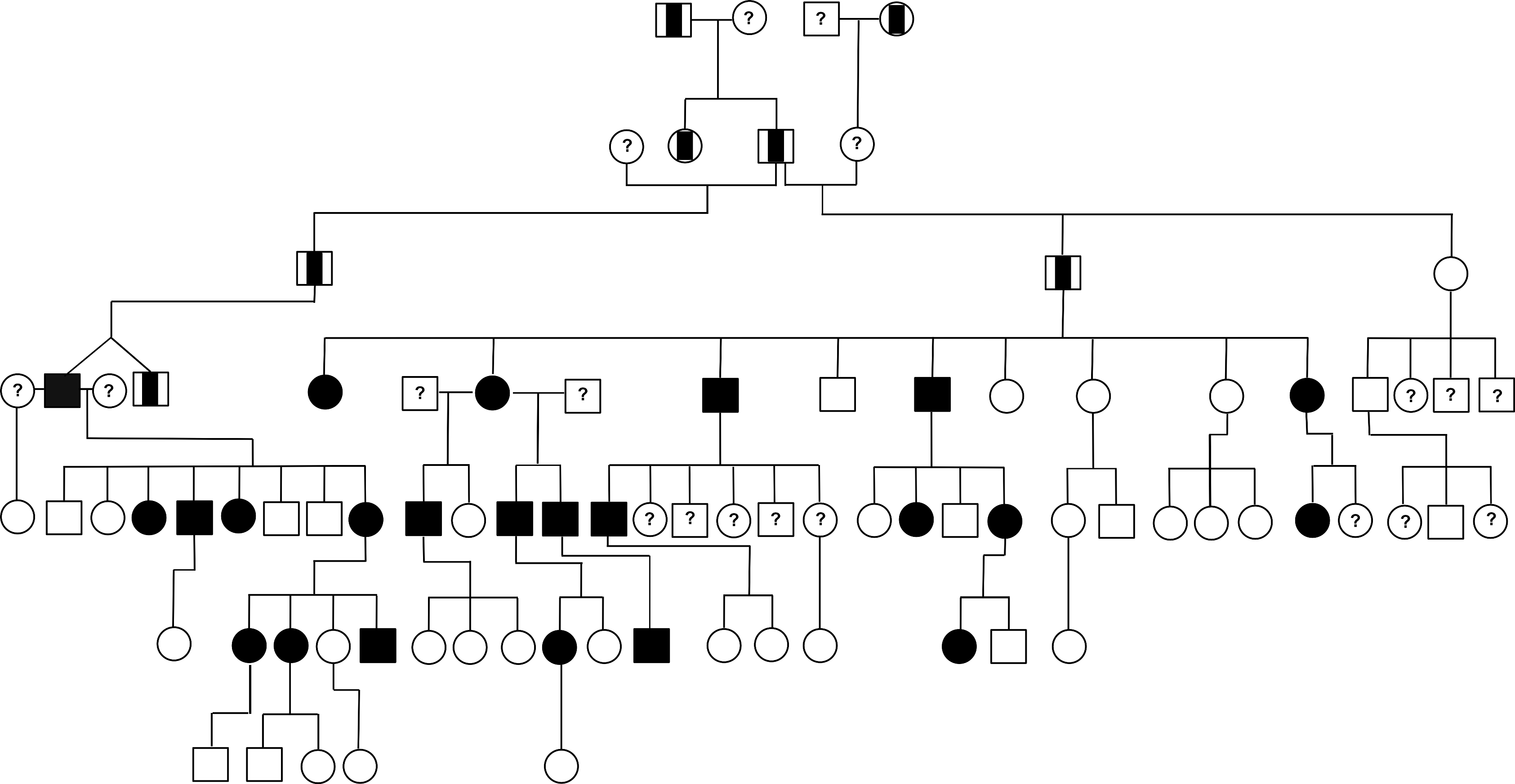 McCoys family-tree (source of information:Atuk, NO, Stolle, C, Owen, JA, Jr., Vance, ML. Pheochromocytoma in von Hippel-Lindau disease: clinical presentation and mutation analysis in a large, multigenerational kindred. Clin Endocrinol Metab. 83, 1, 117-120. 1998. PMID 9435426.)